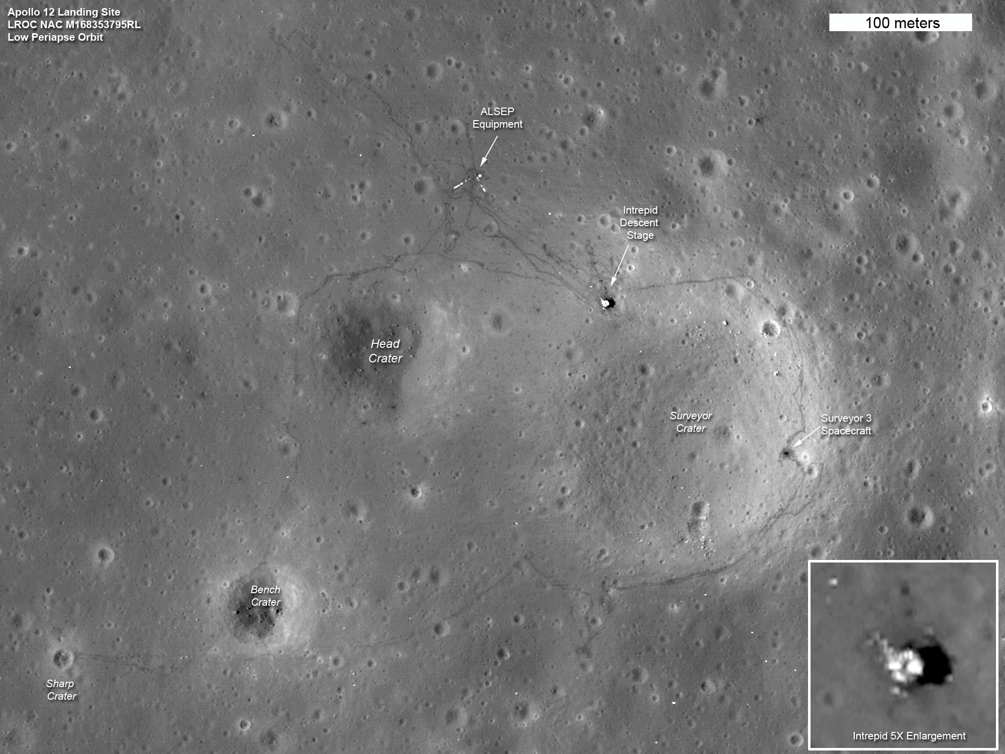 The Apollo 12 landing site imaged by the Lunar Reconnaissance Orbiter in 2011, showing the footprints and hardware left by astronauts Pete Conrad and Alan Bean.